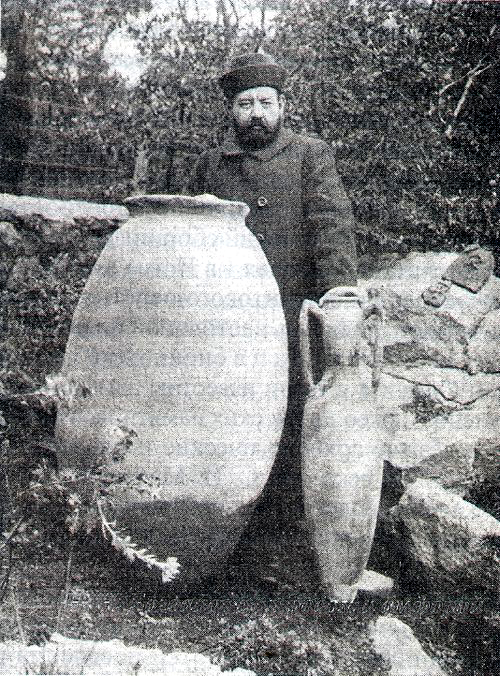 Nikolai Bogdanov, a member of the second Russian State Duma